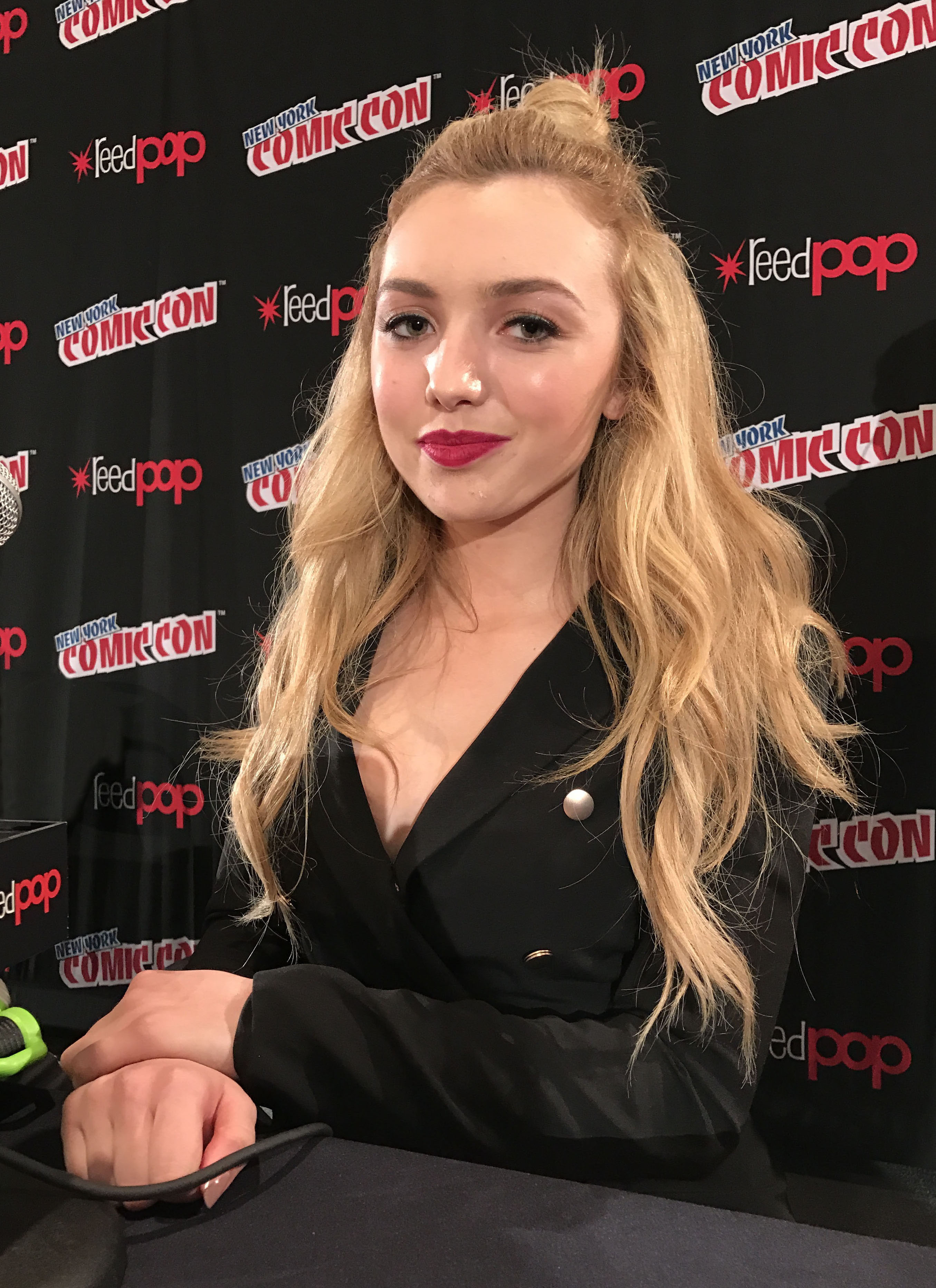 Actress Peyton List at a panel discussion devoted to the 2016 film The Thinning at the Jacob K. Javits Convention Center in Manhattan, on Saturday October 8, 2016, Day 3 of the 2016 New York Comic Con. This photo was created by Luigi Novi. It is not in the public domain, and use of this file outside of the licensing terms is a copyright violation.